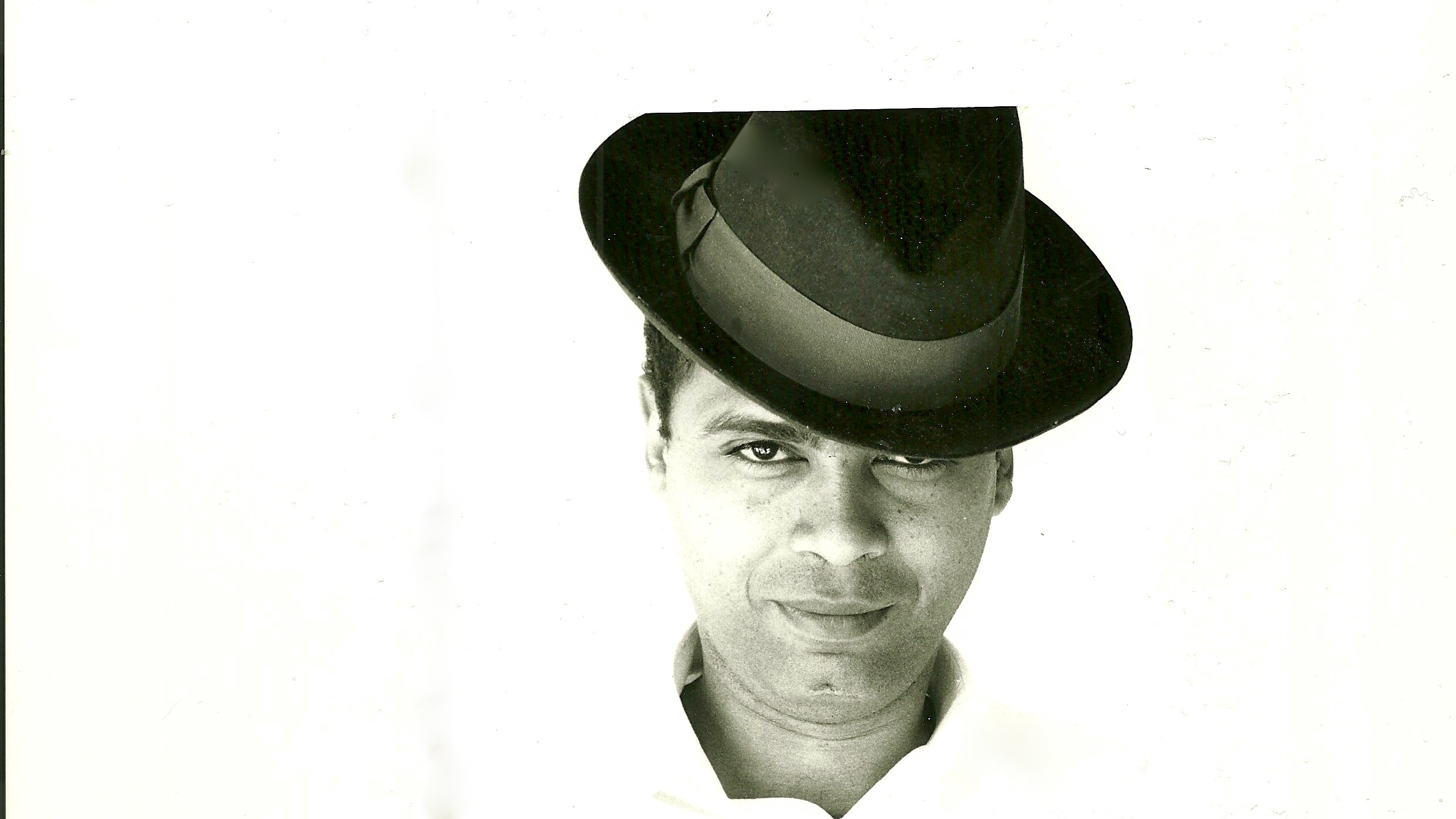 Remilson Nery Brazilian Composer